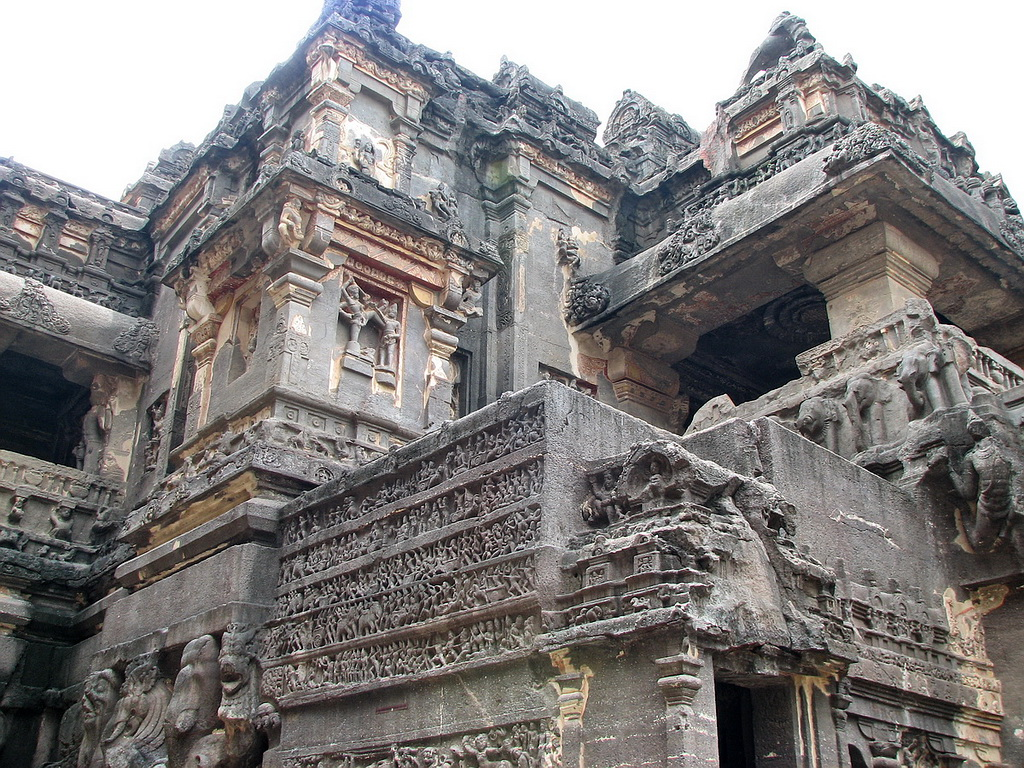 Ellora is an ancient village 30 km (18.6 miles) from the city of Aurangabad in the Indian state of Maharashtra. Famous for its monumental caves, Ellora is a World Heritage Site. Ellora represents the epitome of Indian rock cut architecture. The 35 "caves" – actually structures excavated out of the vertical face of the Charanandri hills – comprised of Buddhist, Hindu and Jain cave temples and monasteries, were built between the 5th century and 10th century. The 12 Buddhist (caves 1-12), 17 Hindu (caves 13-29) and 5 Jain caves (caves 30-34), built in proximity, demonstrate the religious tolerance prevalent during this period of Indian history. (Text from Wikipedia )